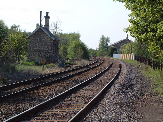 Site of Haxey Station. The former Haxey Station on the Doncaster to Gainsborough line was on this curve with the main buildings on the right. Haxey Station was also the southern limit of the Isle of Axholme Joint Railway which closed to passengers on 15 July 1933. This view is from the A161 level crossing.